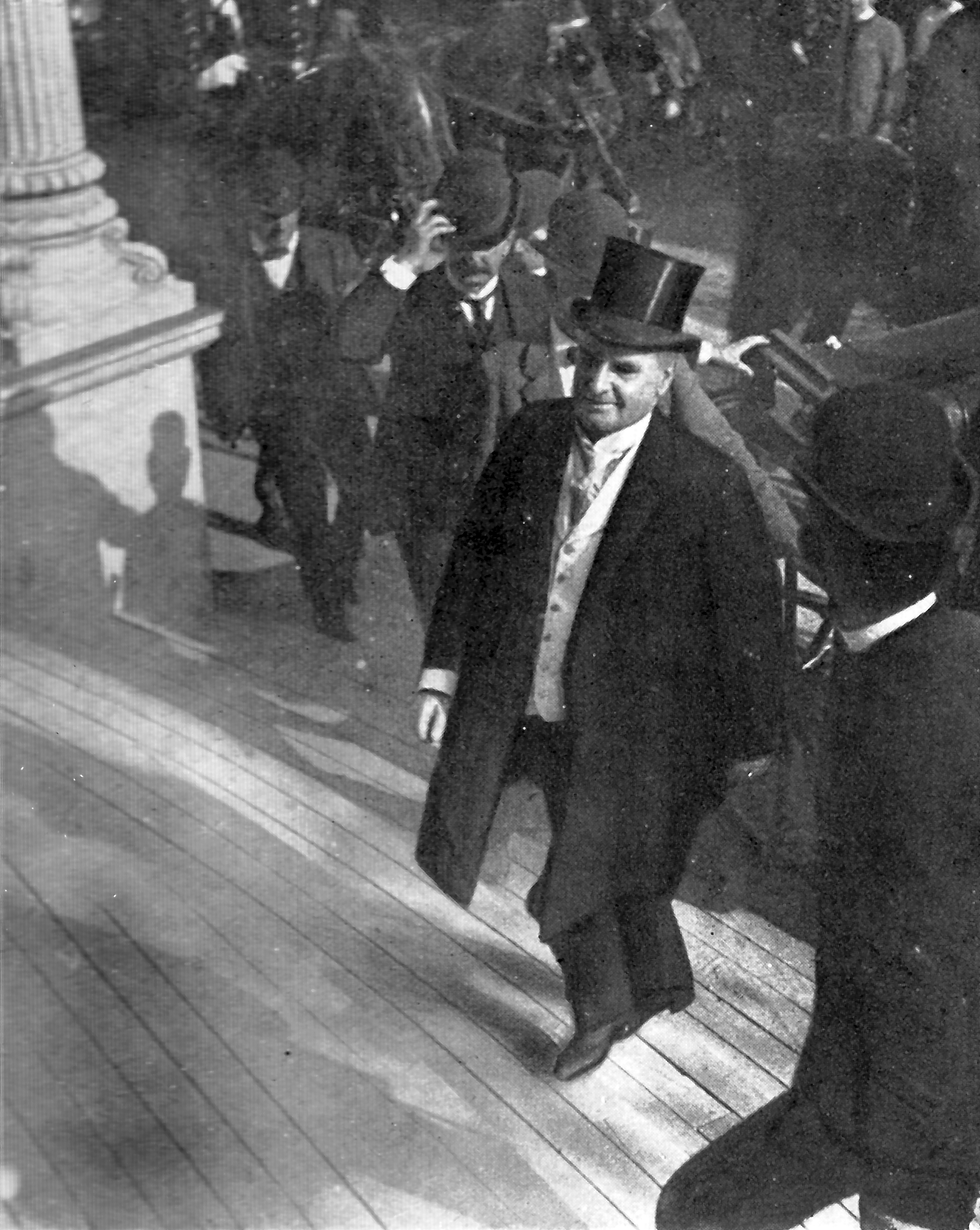 One of the last photographs of the late President McKinley. Taken as he was ascending the steps of the Temple of Music, September 6, 1901.